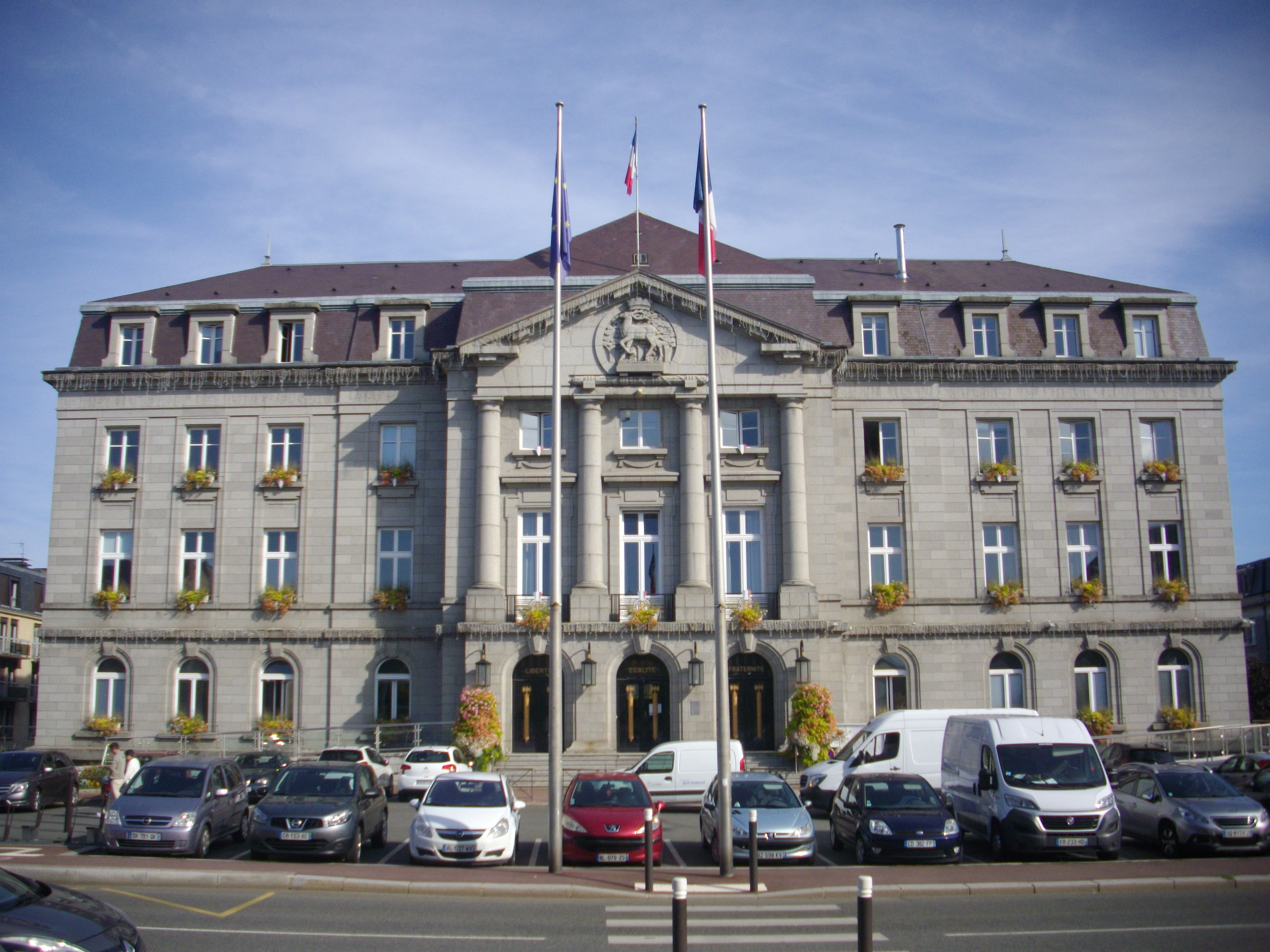 Town hall of Guéret (Creuse, France)